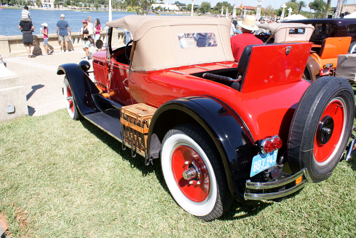 Very early Wills Sainte Claire Model A-68 2/4 passenger Roadster (1921) with 67 bhp dohc V-8 engine of Wills design.SONY DSC